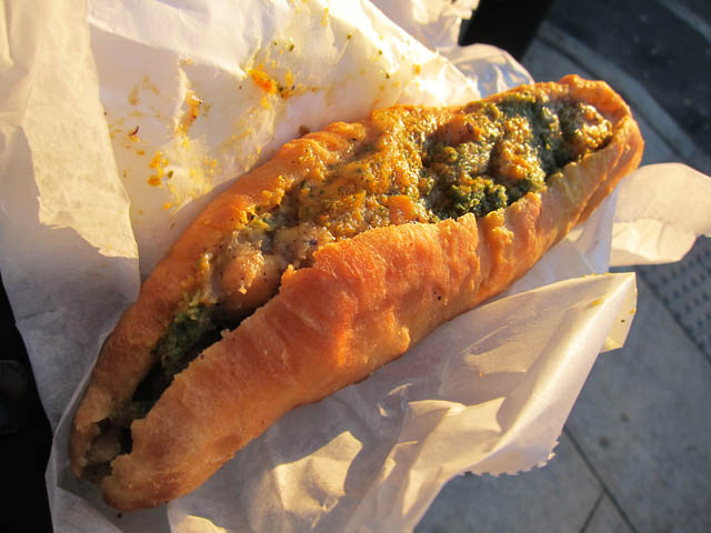 Aloo pie, variant of the samosa popular in Trinidad and Tobago